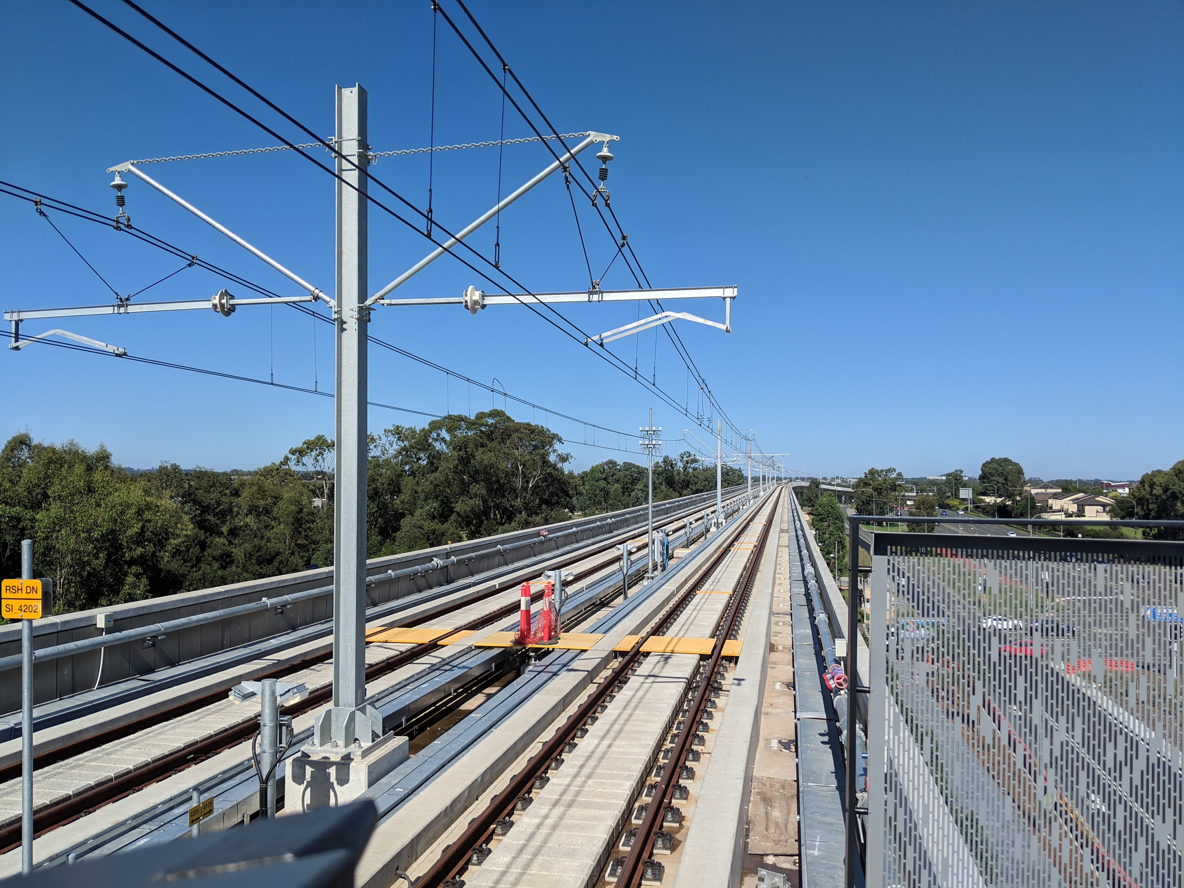 Rouse Hill Station, Sydney Metro